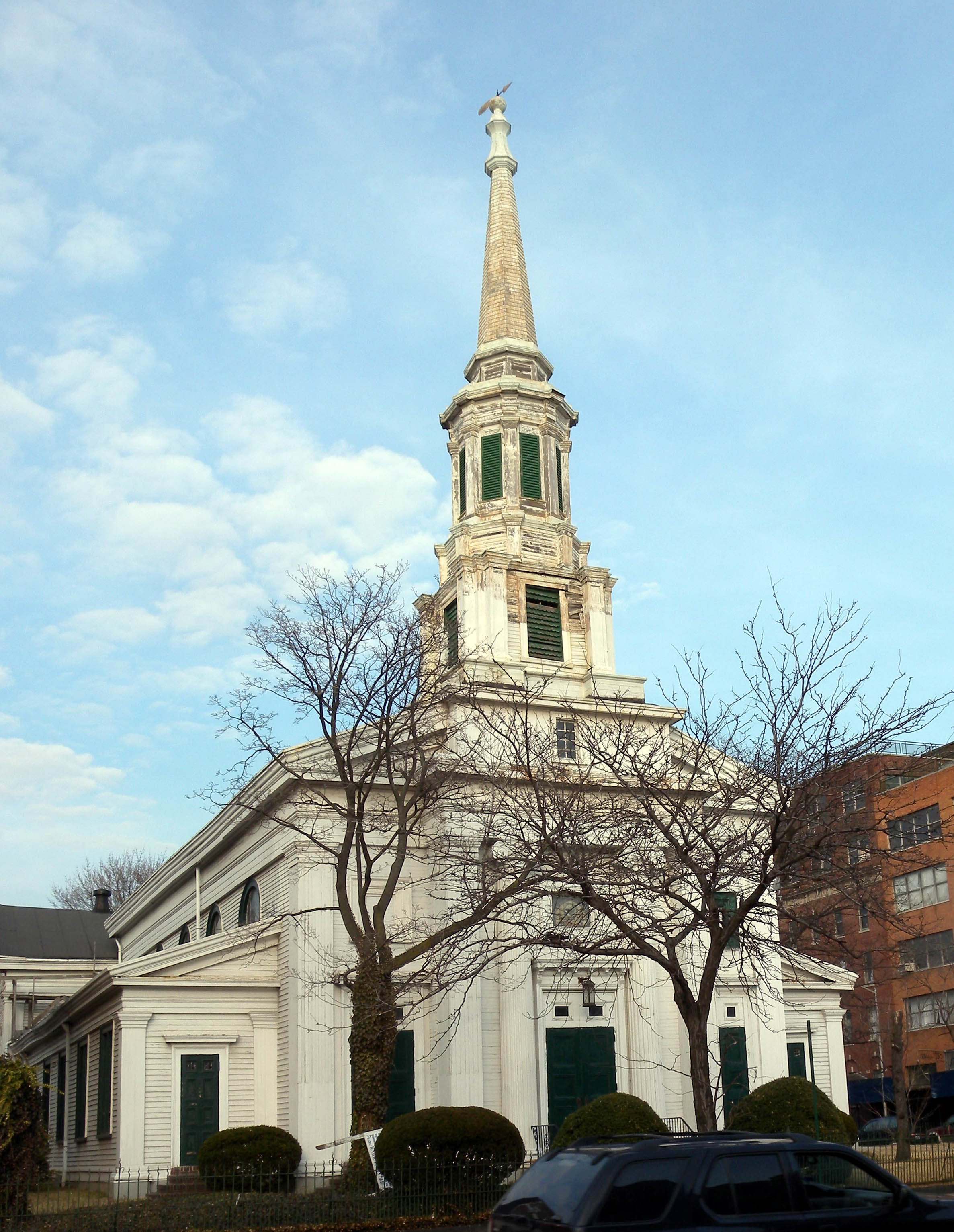 Looking northeast at South Bushwick Reformed Church on a sunny afternoon, seen from west side of Kossuth Street. NYCLPC designation 1968; Guidebook map 13. ZIP 11221.